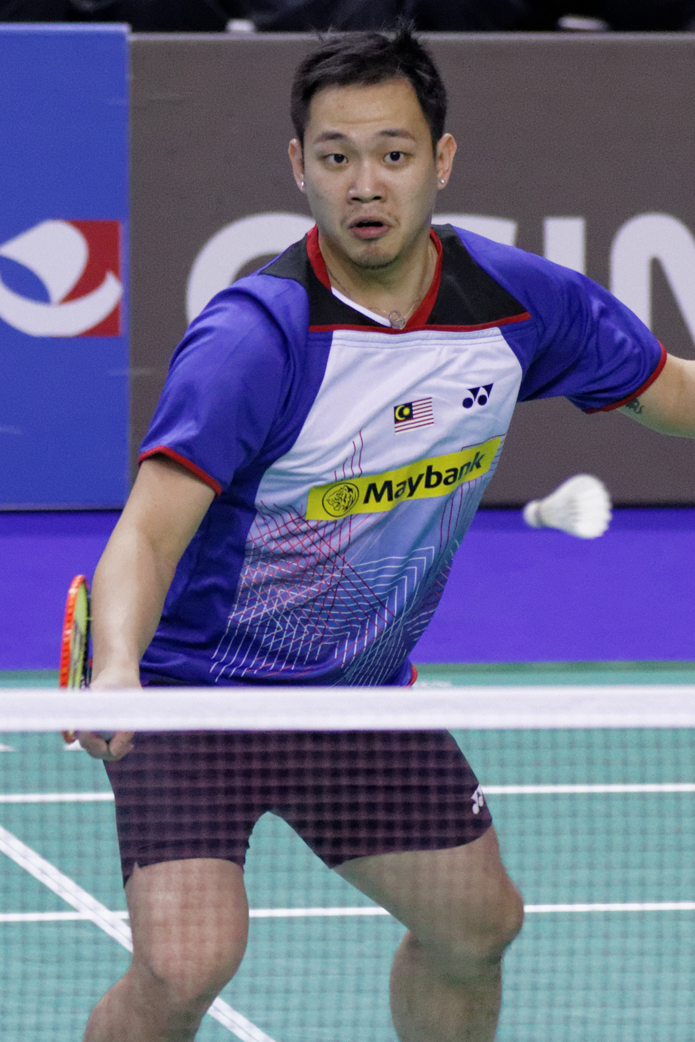 2013 French open. Men's doubles eightfinal. Koo Kien Keat and Tan Boon Heong vs Michael Fuchs and Johannes Schöttler.